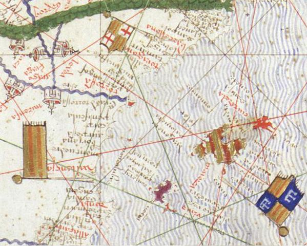 Detail of the Catalan Atlas of 1375. Names are written head down on the photo, because of the way they are written following the coastline.